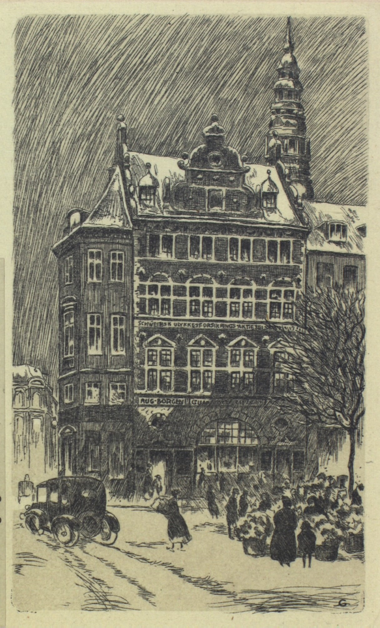 Gøjbro Plads 3-5 in Copenhagen, Denmark